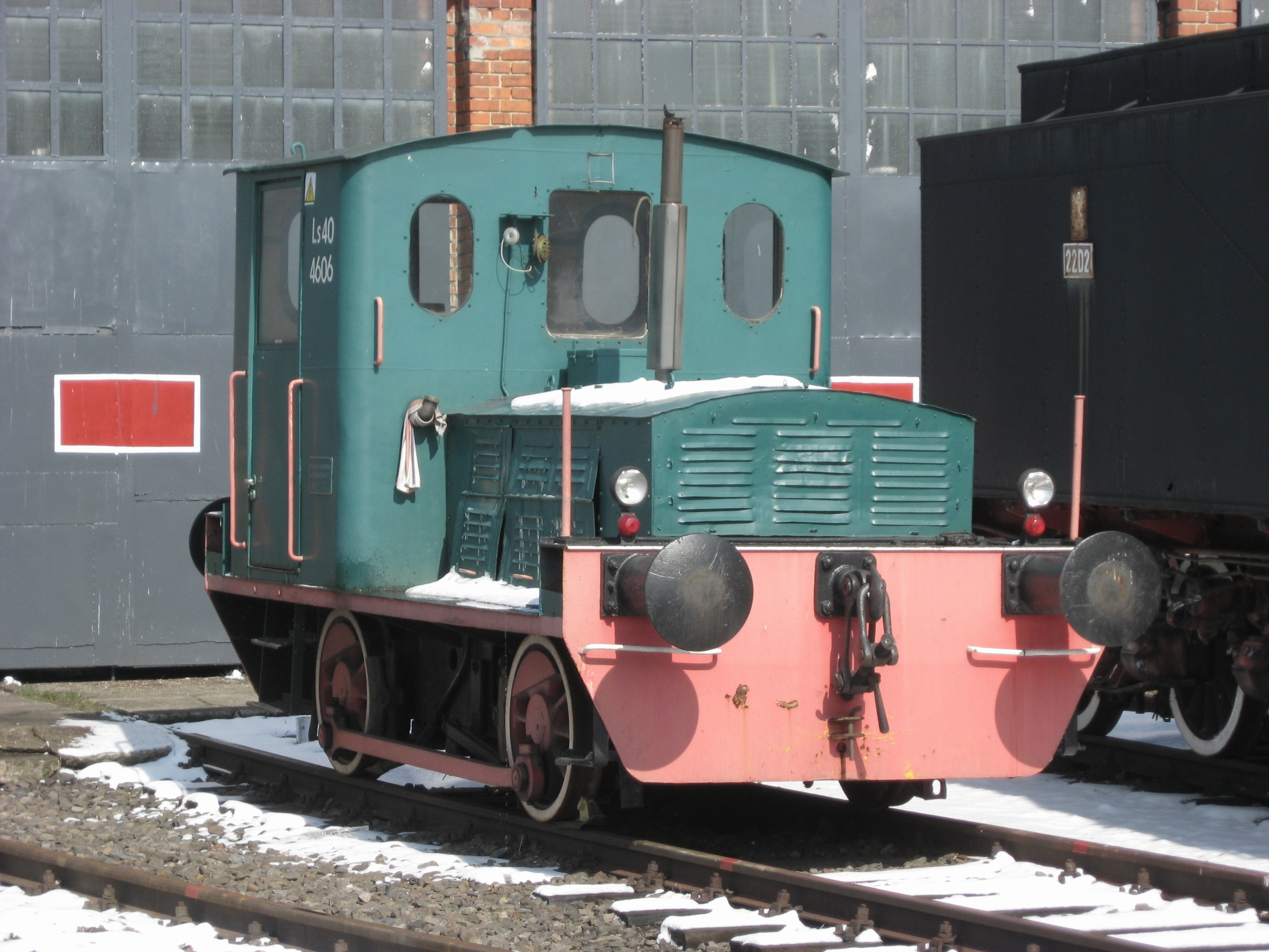 Museum of Industry and Railway in Lower Silesia - Ls40